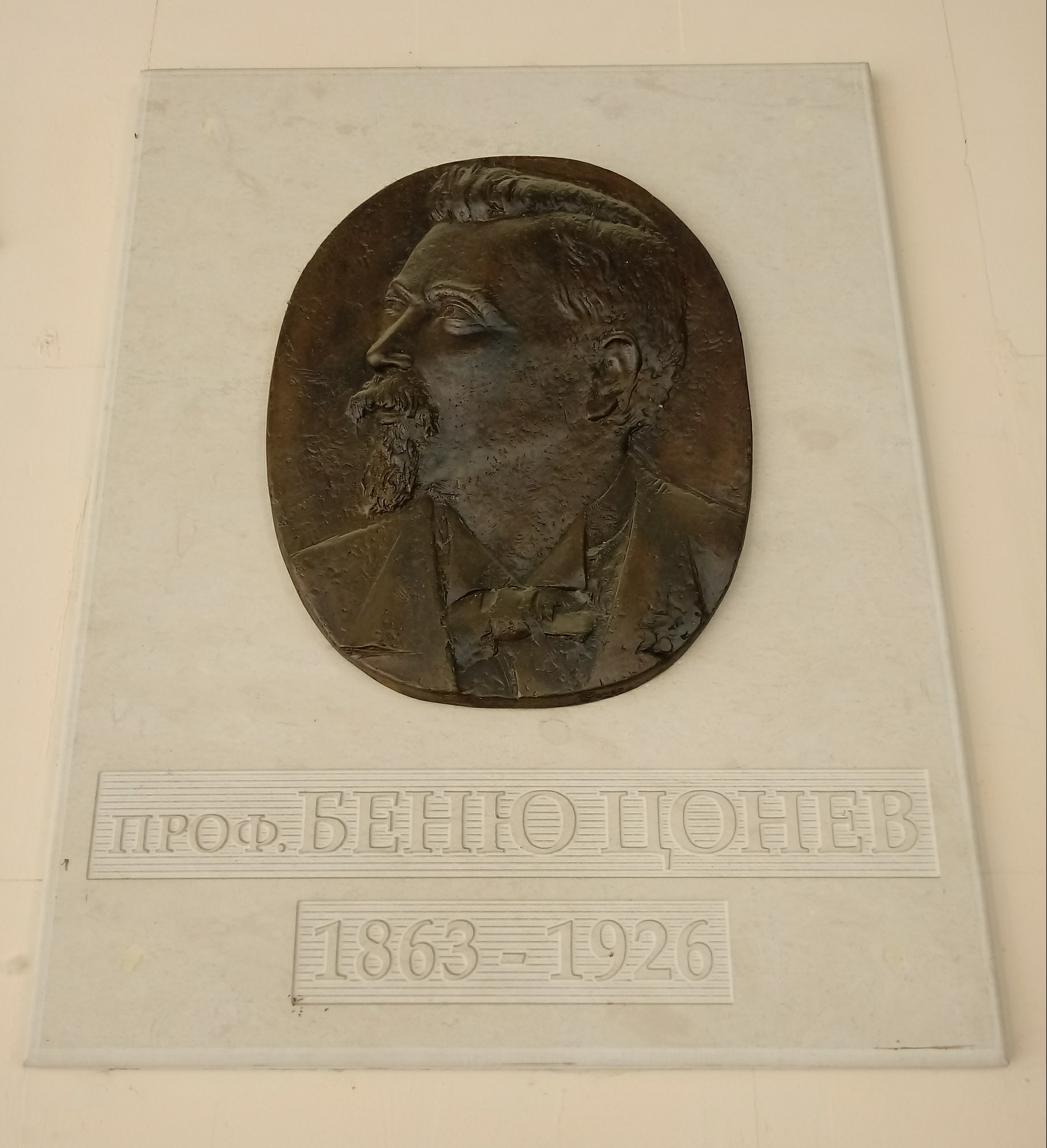 Benyu Tsonev basrelief Lovech regional library